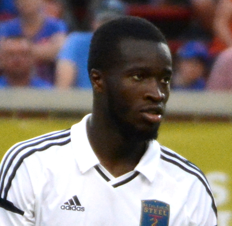 Seku Conneh Taken during a match between FC Cincinnati and Bethlehem Steel FC at Nippert Stadium in Cincinnati, USA on May 20, 2017.